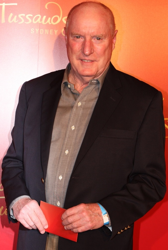 Ray Mayer at Madame Taussuads night with the stars 2012.